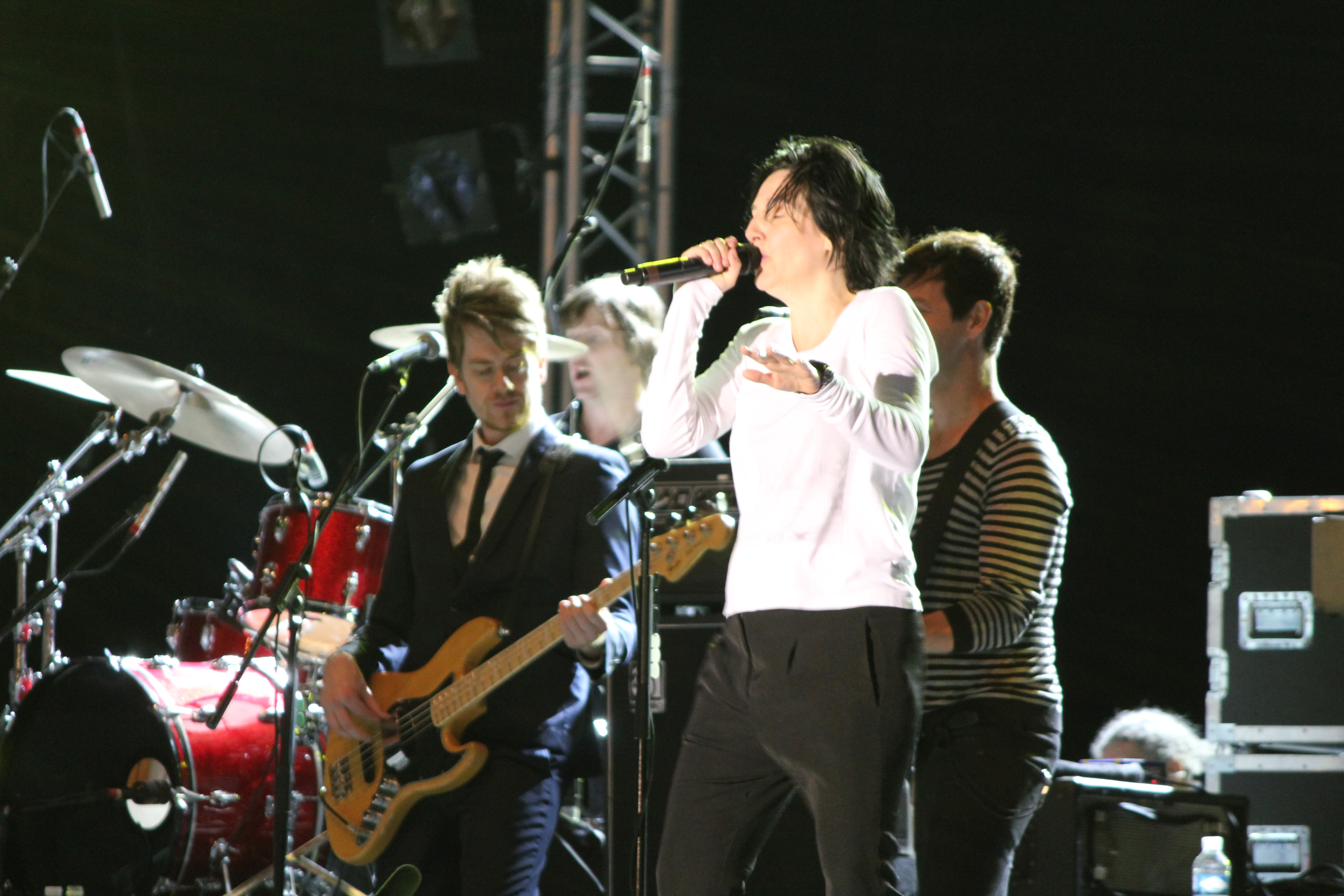 Texas band playing at Keroman fishing port in Lorient during the 2011 edition of the festival interceltique.